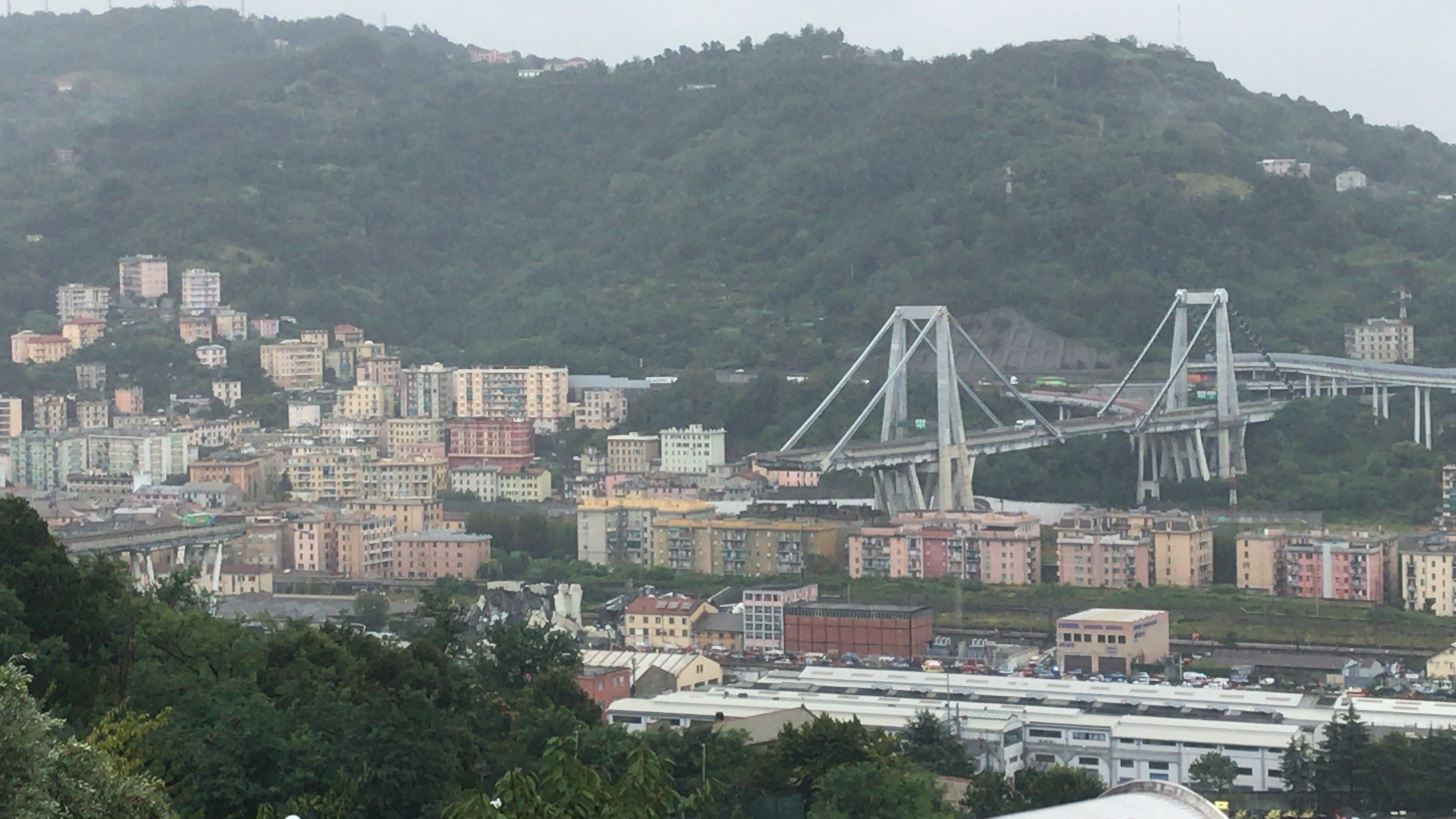 View of houses in Polcevera valley near one of the major railway lines in Genua, a view from Coronata (in the West) over the collapsed Morandi bridge to the hills of quarter Belvedere above Genova (in the East). Shot by Salvatore Fabbrizio, August 2018.